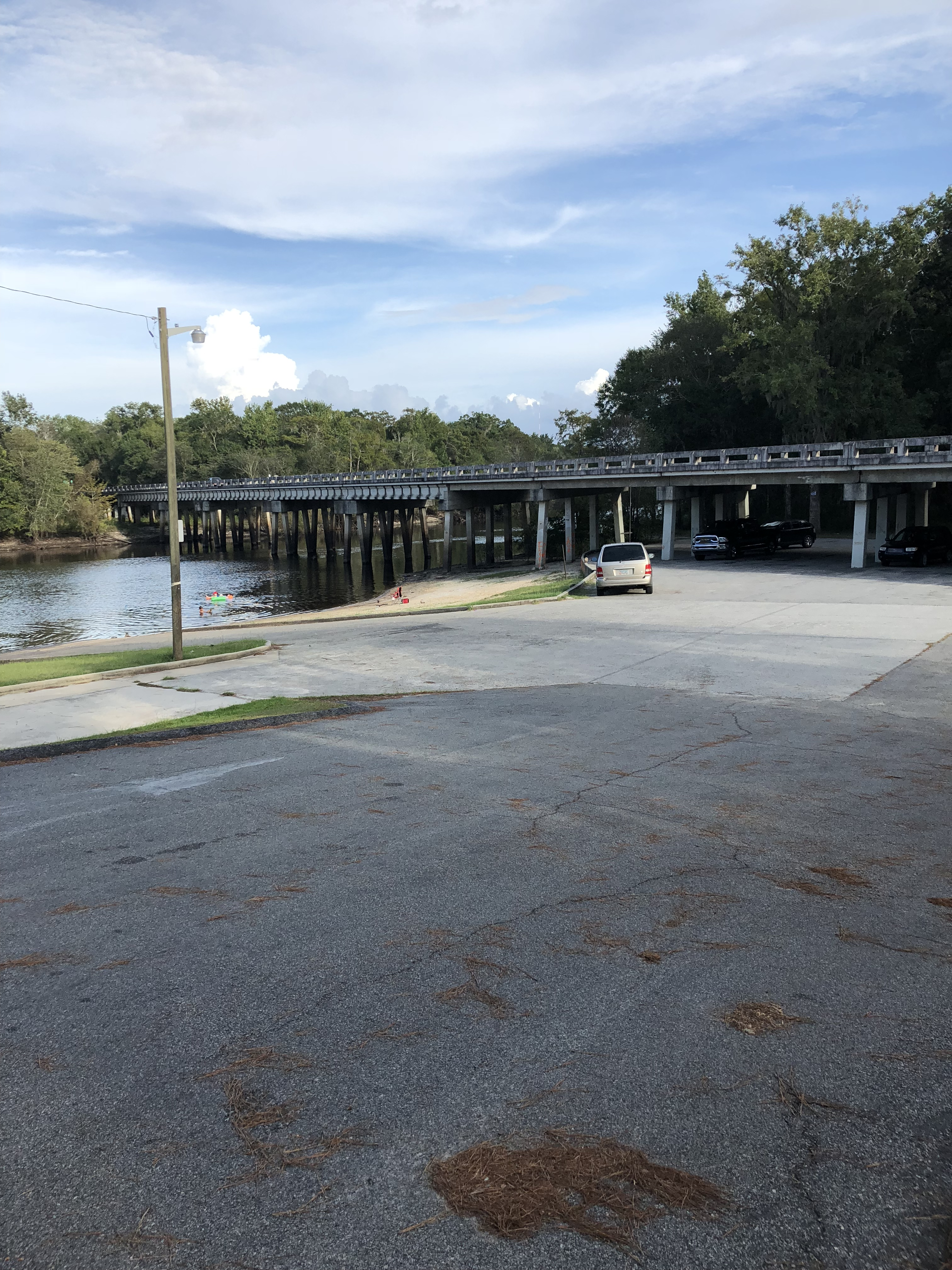 This photo shows the bridge that carries SR 204 across the Ogeechee river as seen from the Bryan county side